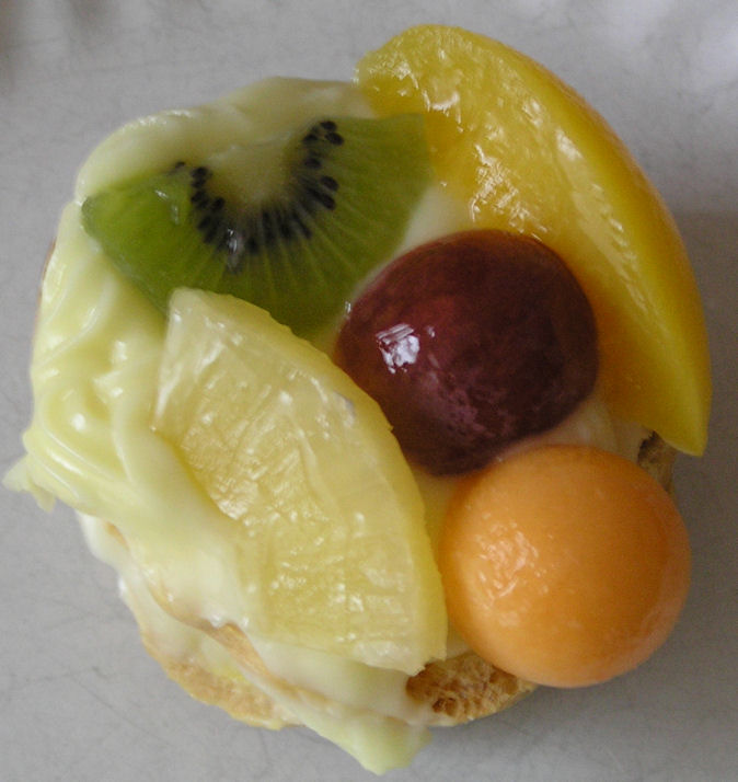 Chinese pastry Fruit Tart